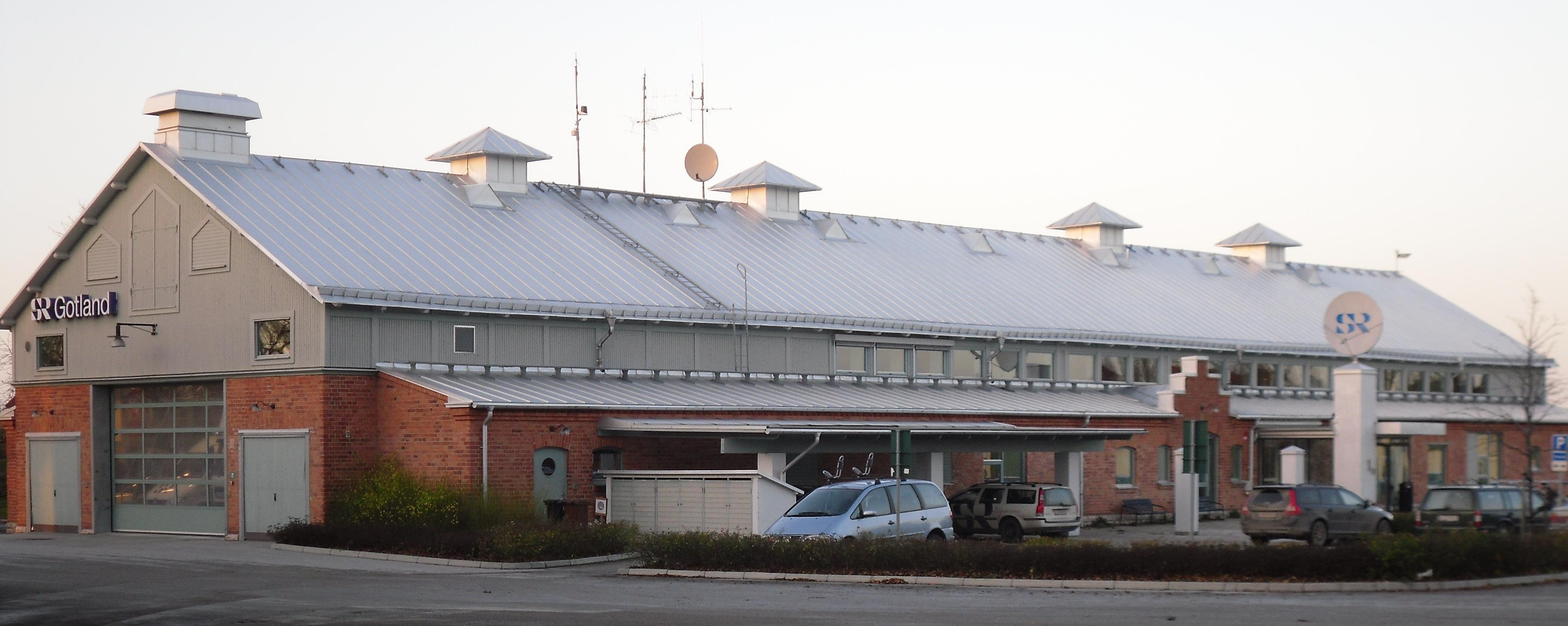 Swedish Radio Gotland, main building in Visby.